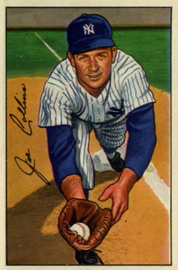 Major League Baseball player Joe Collins in 1952.